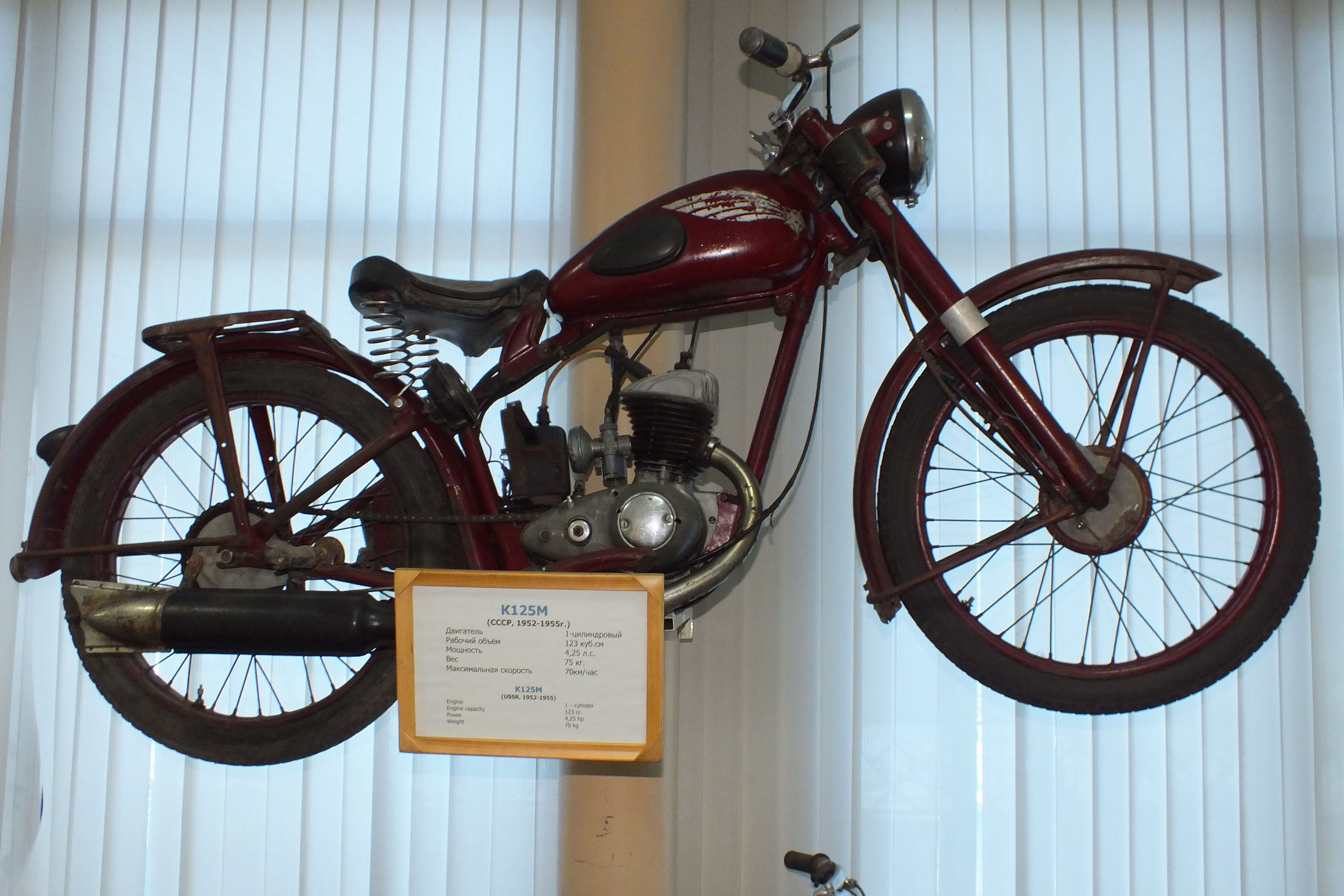 Motorcycles of Russia